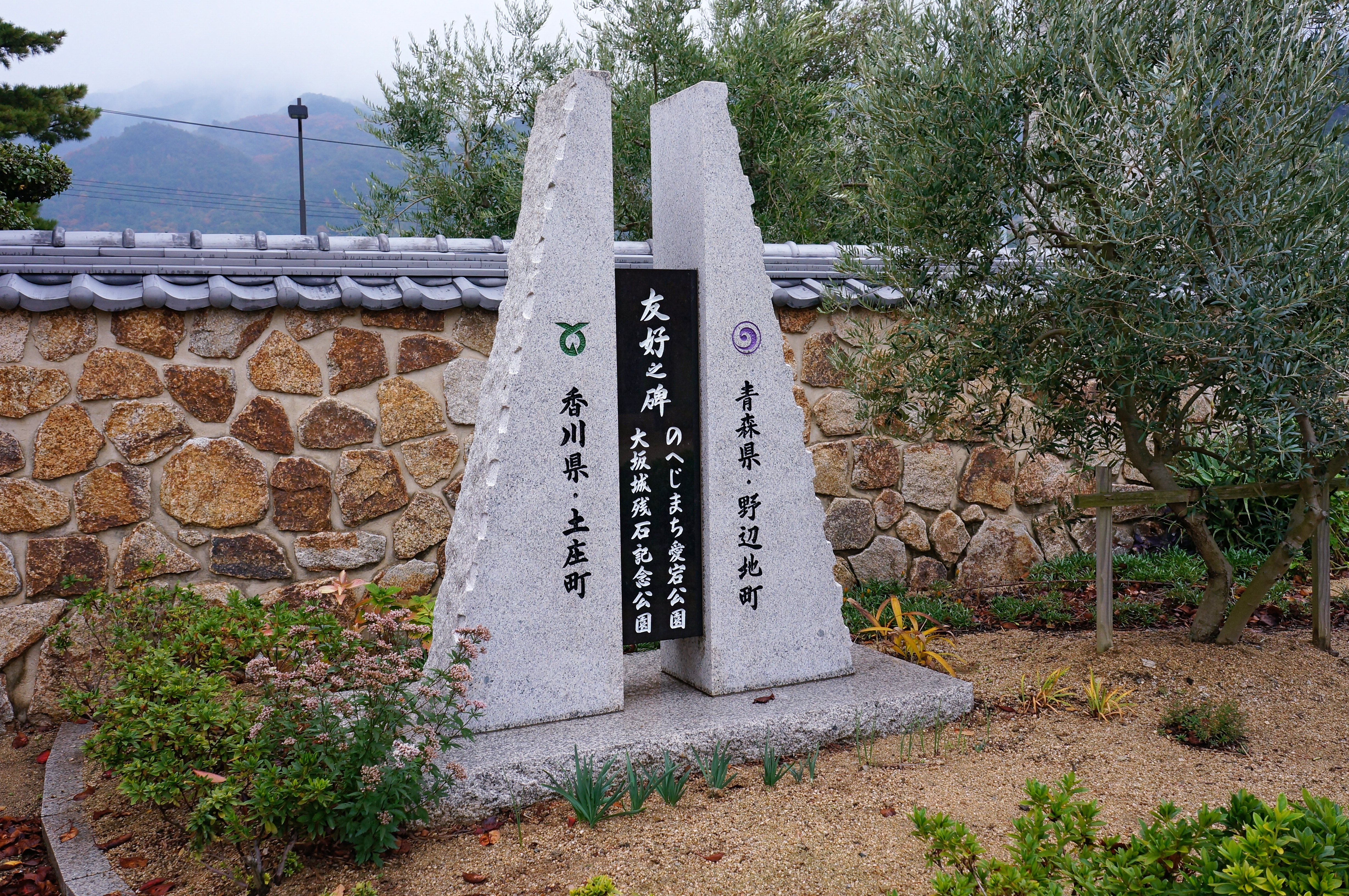 "Stones of Osaka Castle" Commemorative Park in Tonoshō, Kagawa Prefecture, Japan